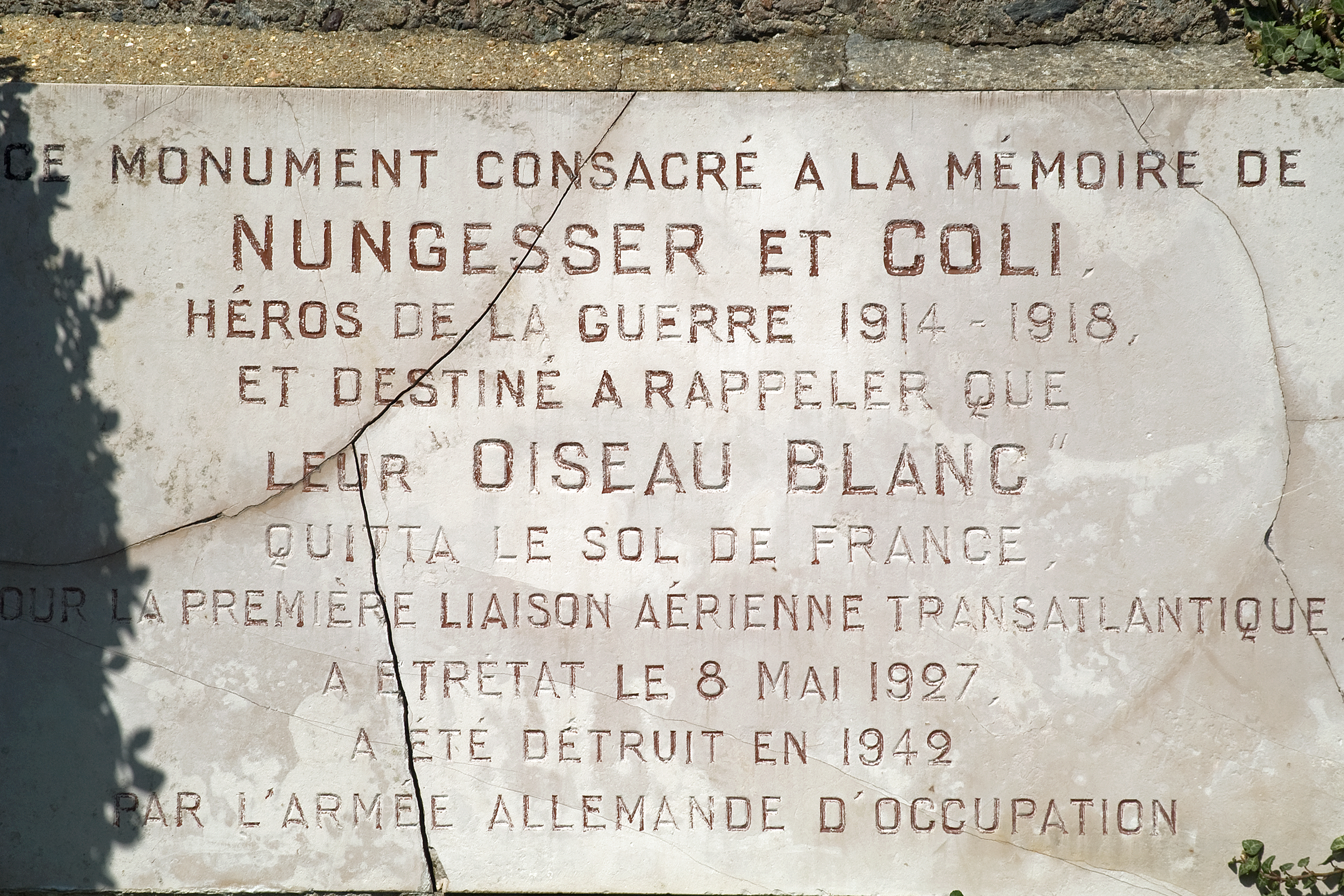 Memorial plaque (20th c.) in Etretat for the French aviators Charles Nungesser (left) and Francois Coli (right), who disappeared in 1927; Étretat (Seine-Maritime), France.